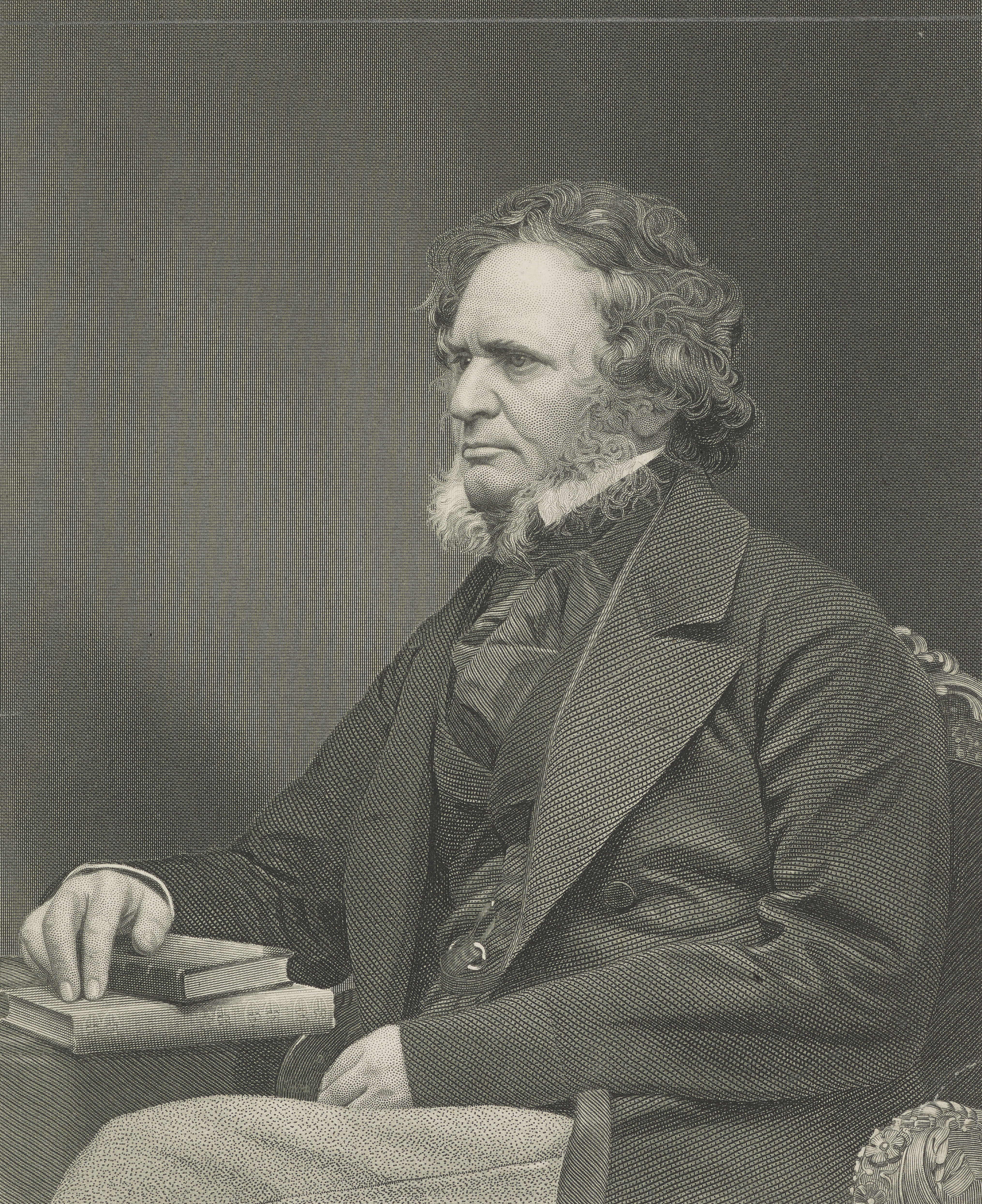 Portrait of Edward Smith-Stanley (1799–1869)